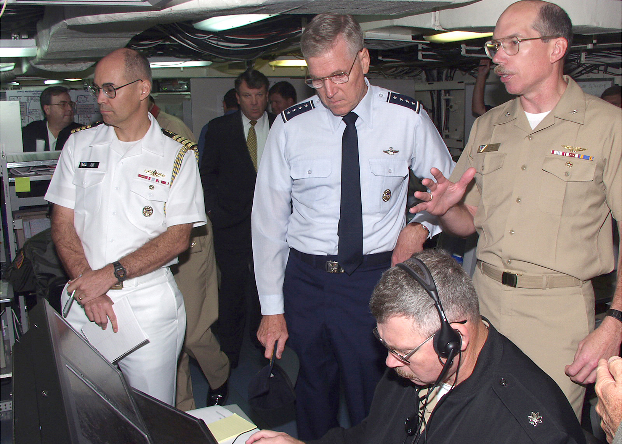 Aboard USS Coronado (AGF 11) San Diego, Ca (Jul. 30, 2002) -- The Chairman of the Joint Chiefs of Staff, Air Force Gen. Richard Myers (center) tours the Joint Air Operation Center aboard the U.S. Third Fleet command ship. Coronado is the headquarters for the command of maritime and joint forces during “Millennium Challenge 2002” (MC-02). MC-02 is one of the largest U.S. joint military training experiments developed by the U.S. Joint Forces Command (JFCOM) designed to test a number of joint organizational concepts in cooperation with events staged at eight western U.S. bases and facilities. The experimental exercise will focus on finding new ways to use the equipment already available to the military. USS Coronado is the headquarters for the command of maritime and joint forces during the exercise. U.S. Navy photo by Photographers Mate 2nd Class Michael R. McCormick. (RELEASED)